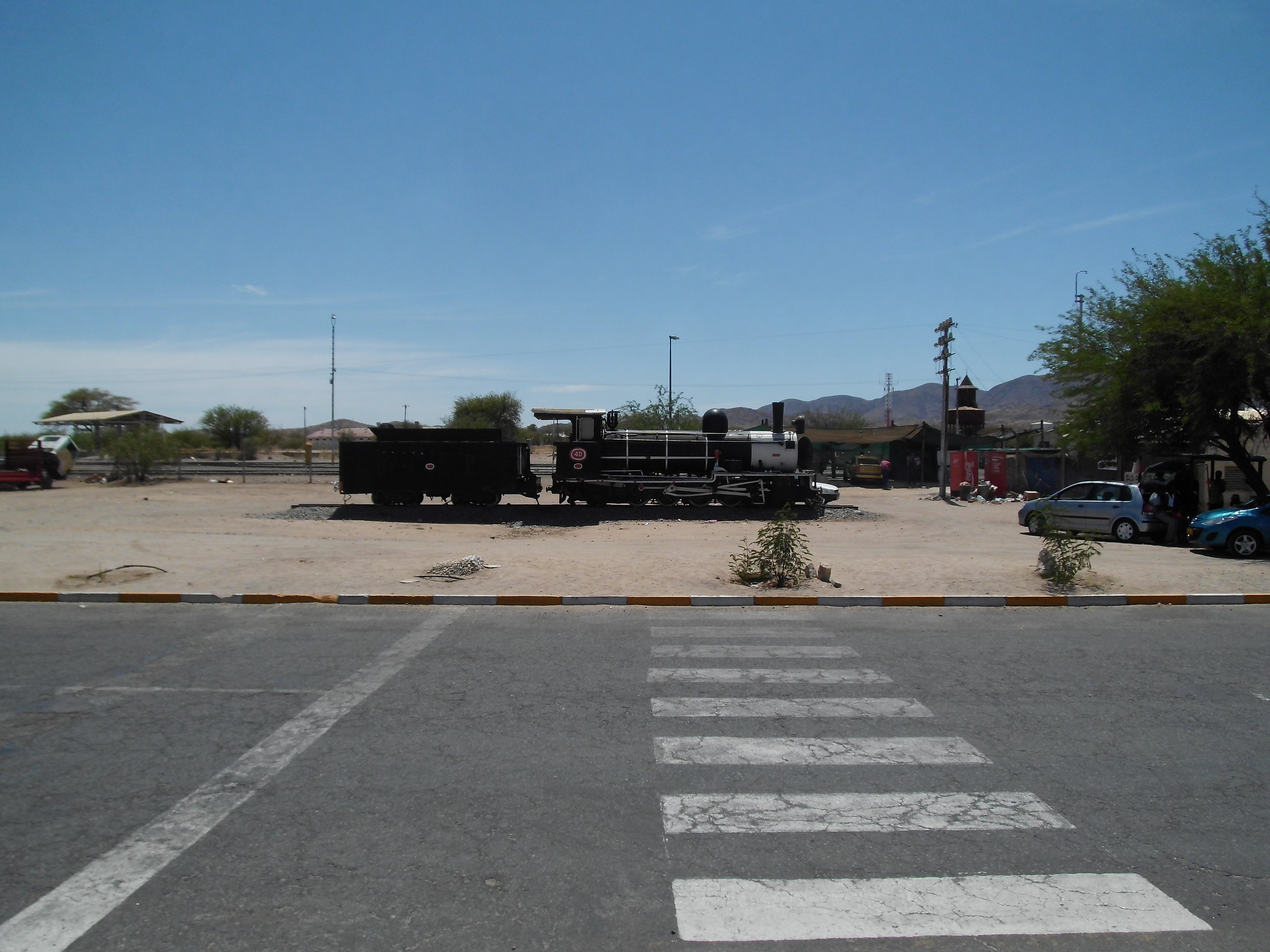 Historic Train at train station in Usakos Namibia